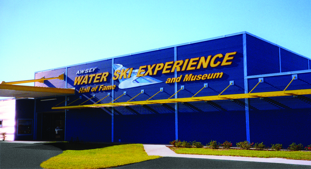 For more pictures and photos visit our Orlando Attractions set or the Go Orlando Card Collection For more info Go Orlando Card visit our website